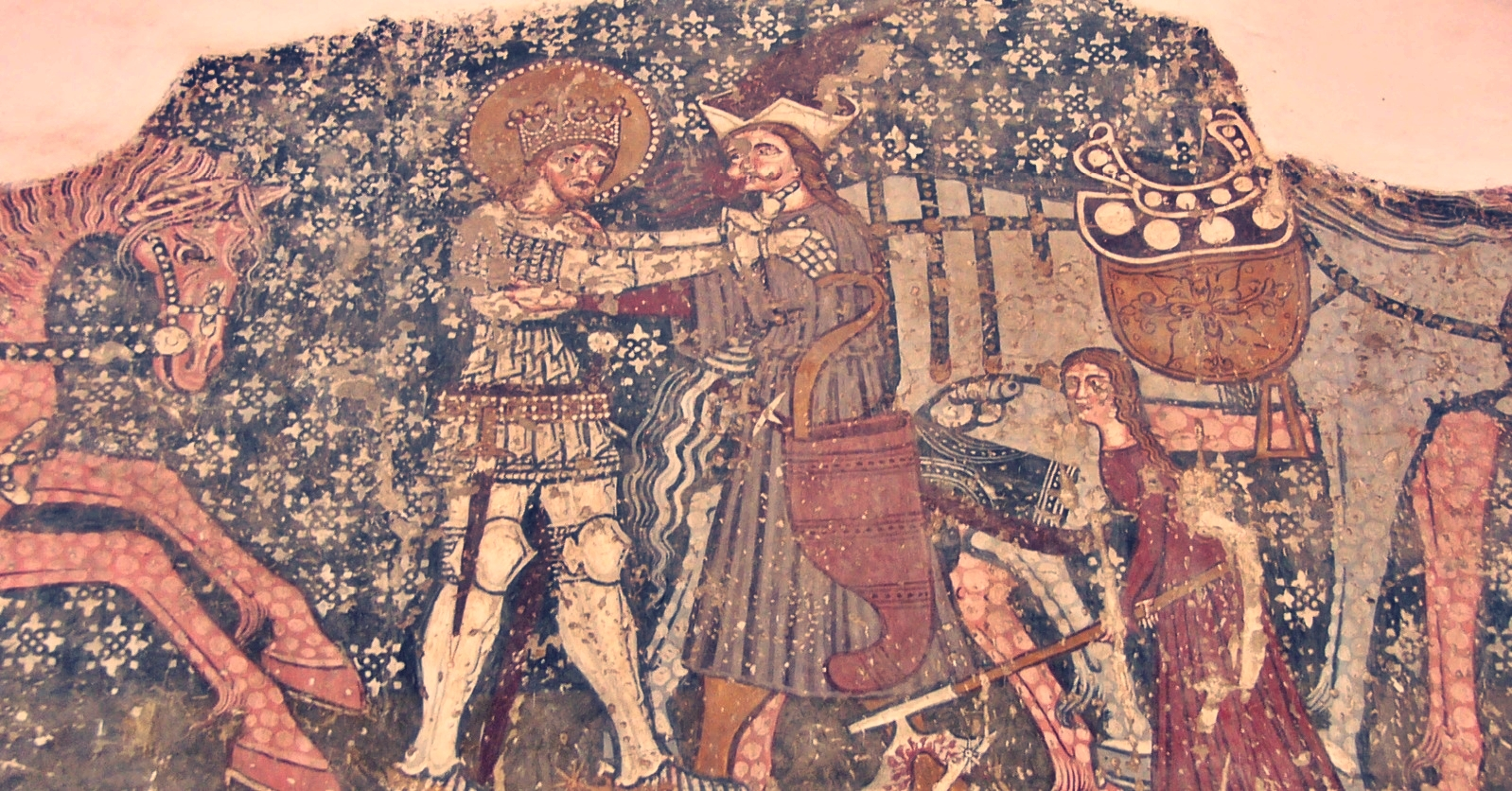 Dârjiu, murals in the Unitarian Church, Hungarian King Ladislaus I. of Hungary (left) fighting with a Cuman Warrior (right)